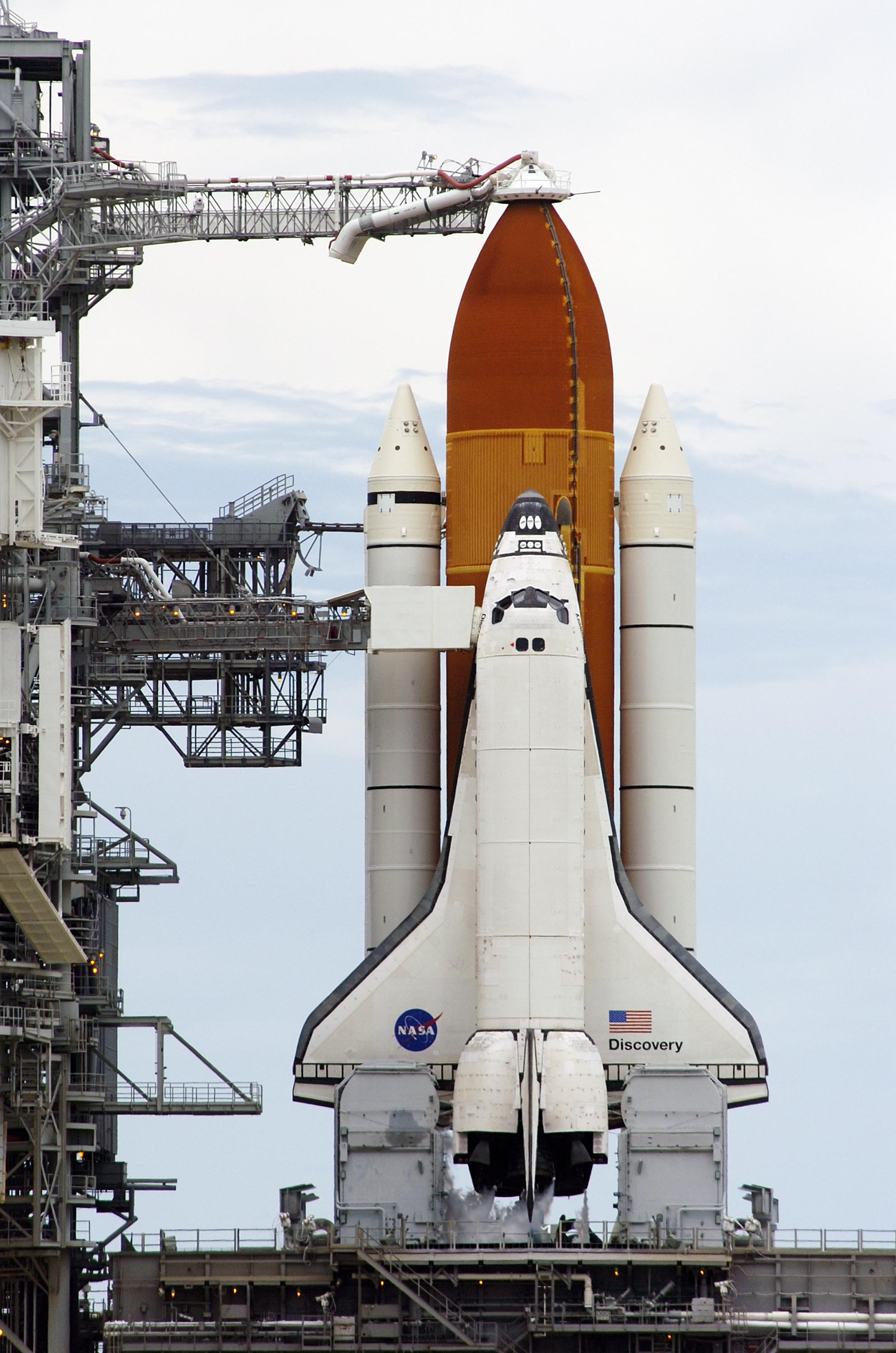 Space Shuttle Discovery remains on Launch Pad 39B after the countdown was halted for the launch of mission STS-121. The launch was scrubbed due to the presence of anvil clouds and thunderstorms within 20 miles of the launch site and postponed for 24 hours. Photo credit: Nikon/Scott Andrews.